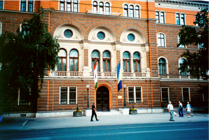 The Presidency building (Building of the Presidency) of Bosnia and Herzegovina, central Sarajevo.